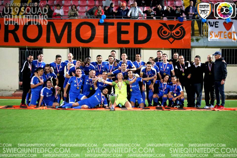 Swieqi United's Under 19s celebrate promotion to Section B